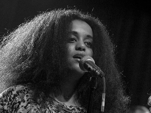 Sofia Jernberg singing in Mats Gustafsons big band FIRE